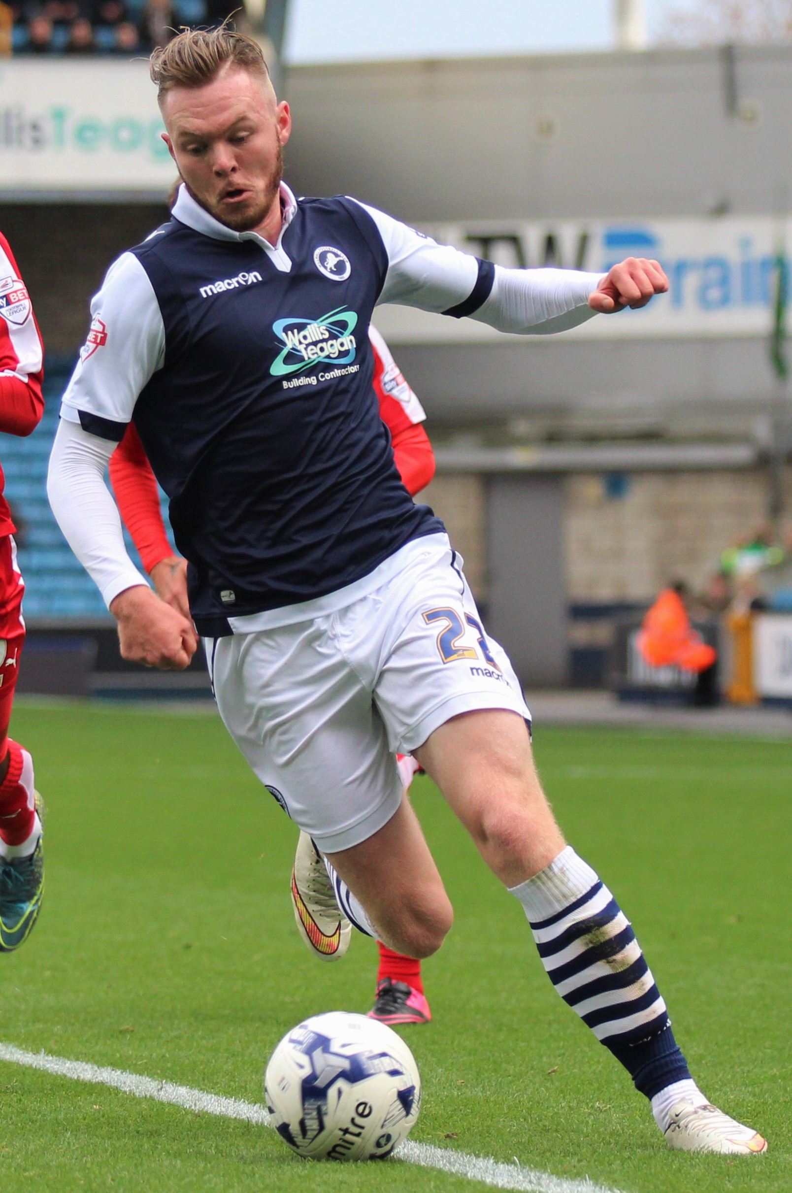 Aiden O'Brien of Millwall on the ball during the game against Swindon Town.